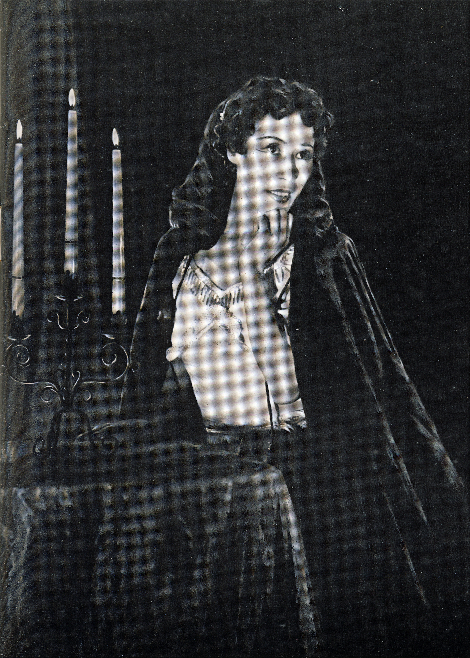 Yaoko Kaitani as Juliet in her own production of Romeo and Juliet (music by Prokofiev), 1956.